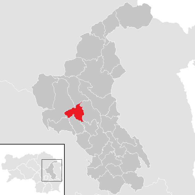 district Weiz